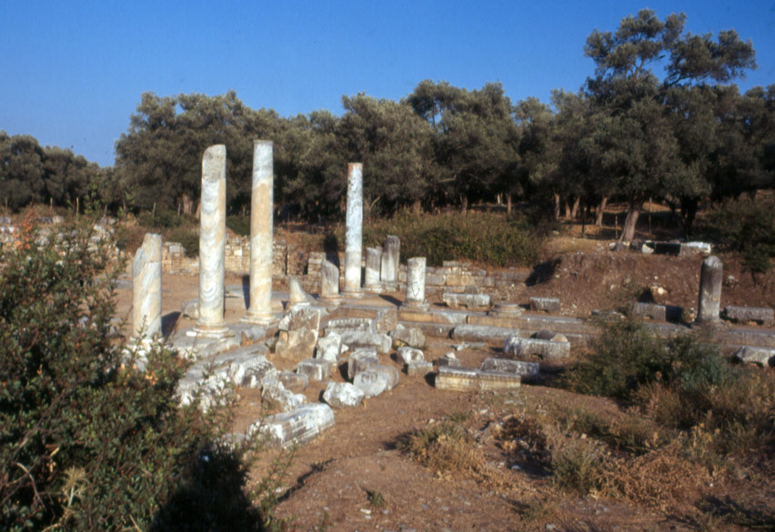 Iasos (Turkey), ancient roman agorà